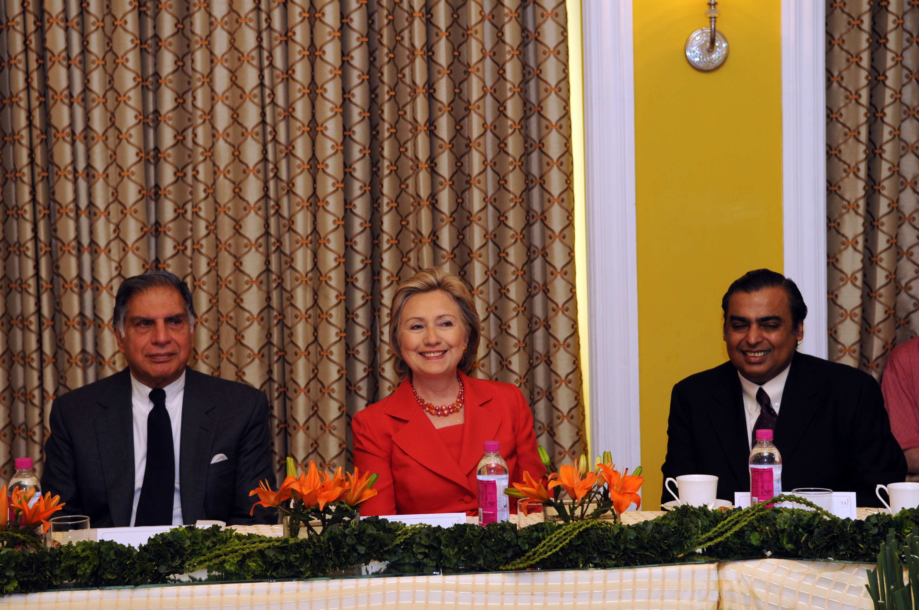 Secretary Clinton meets with India's business leaders. From left to right: Ratan Tata, Charmain of the Tata Group; Secretary Clinton; Mukesh Ambani, Chairman and Managing Director of Reliance Industries.